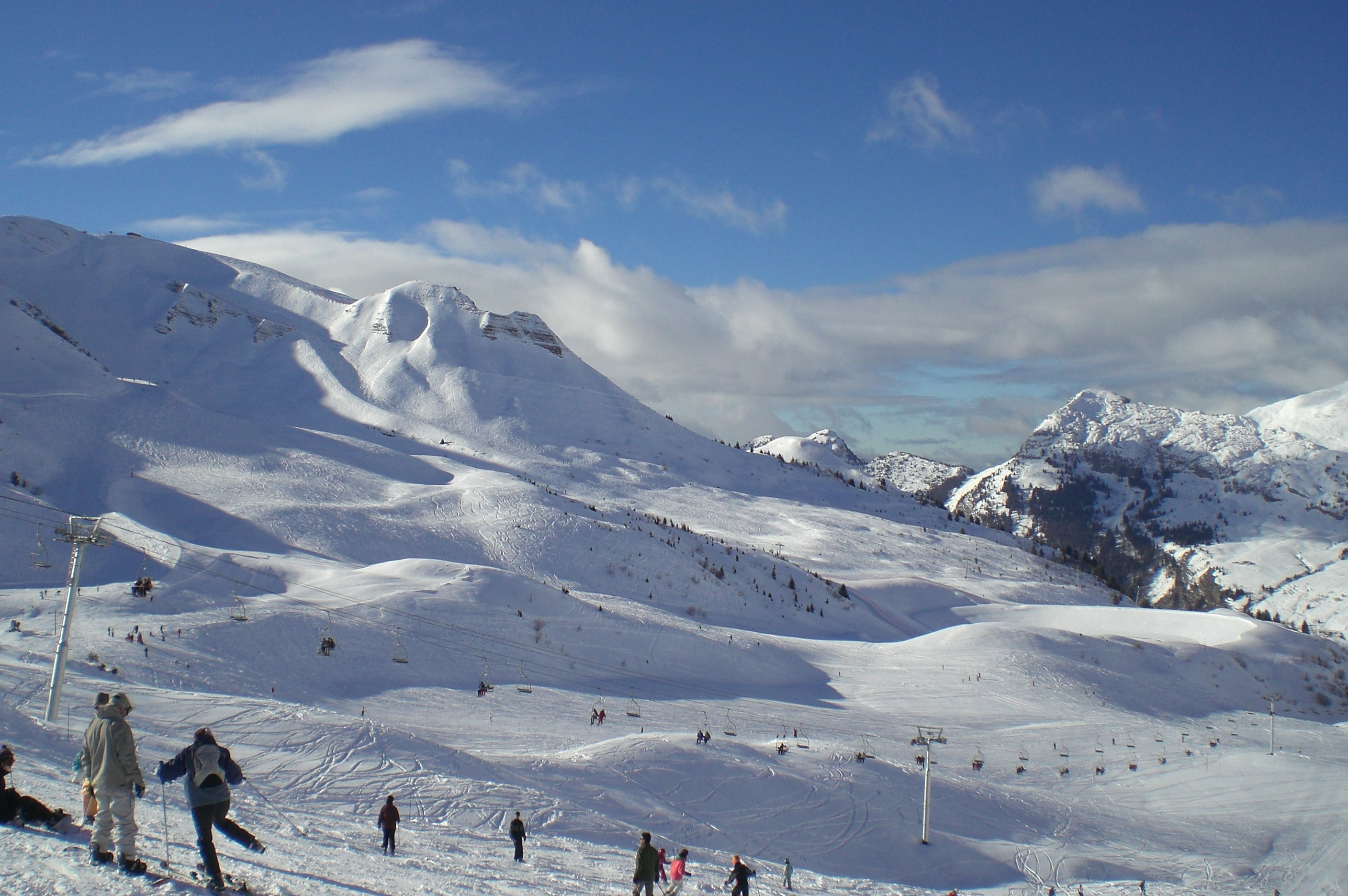 Grand Bornand slopes